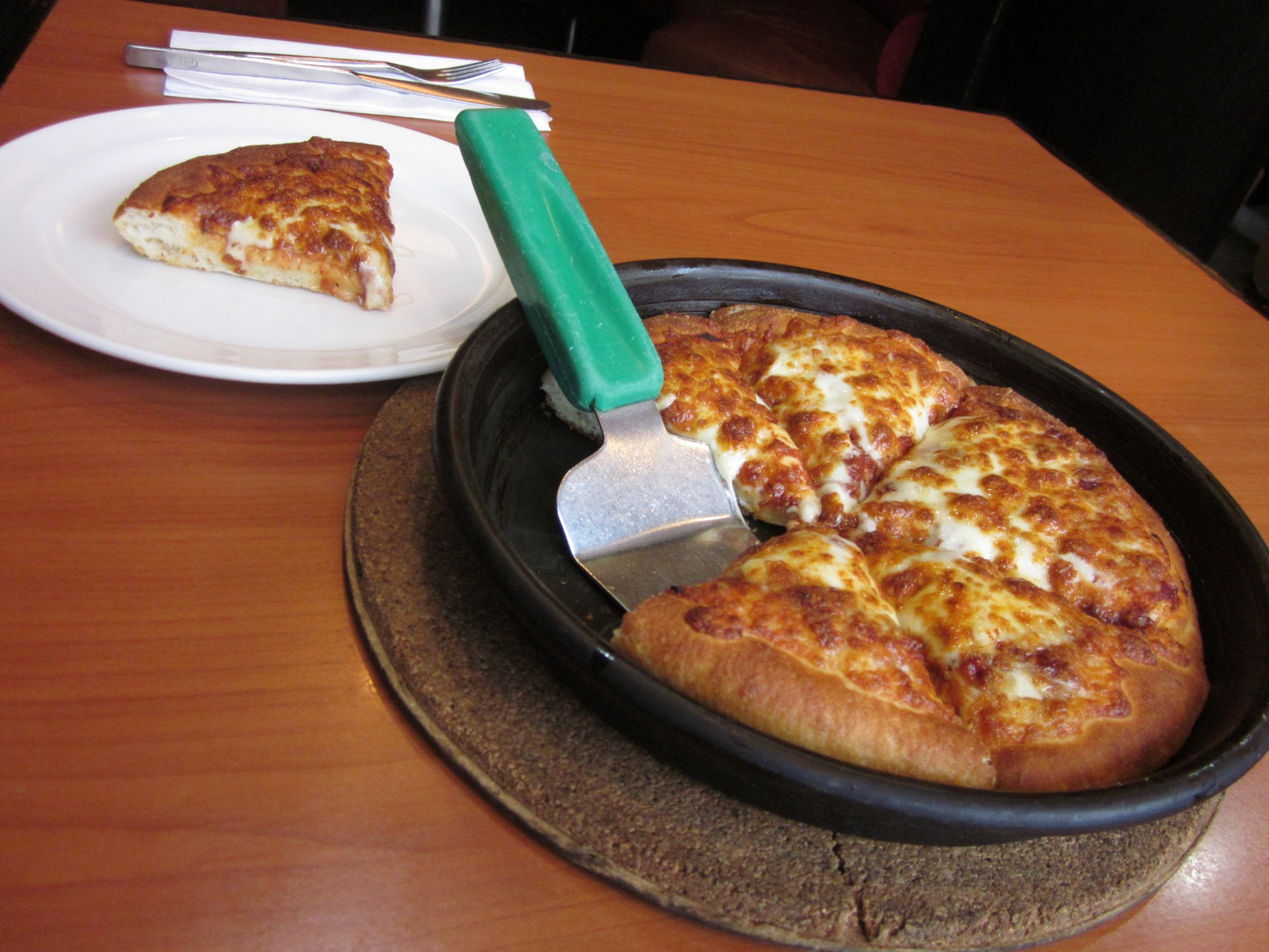 pizza This is an image of food from Tunisia